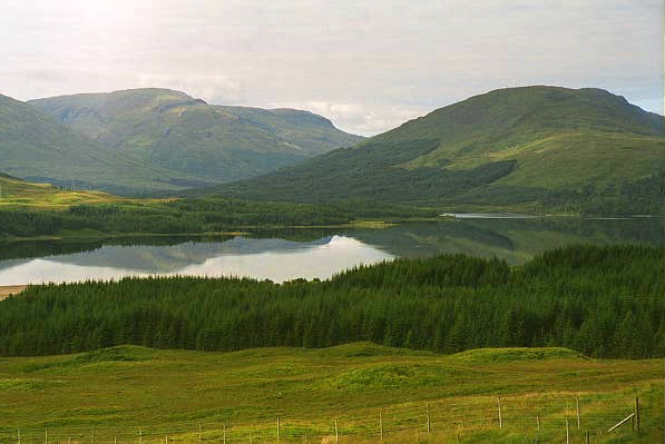 Coniferous Plantation along Loch Tulla. The area around the loch is quite heavily planted with coniferous trees. The section of the plantation in the foreground is more or less the east side of the plantation in this square.